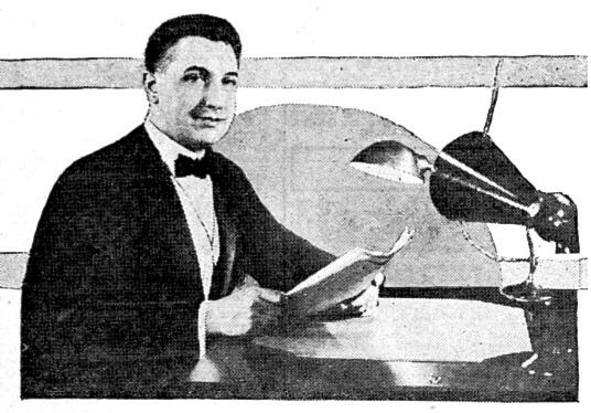 Photograph of Warren R. Cox, founder of radio station WHK in Cleveland, Ohio. Original caption: "Below is Warren Cox, the announcer of Station WHK, of the Radiovox Company, Cleveland, Ohio. Besides announcing Warren happens to own the plant, and, of course, has to run it."